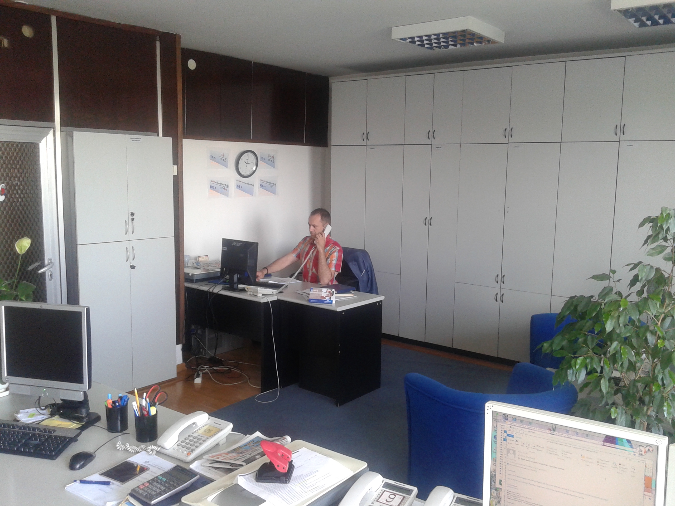 Mihaiilo u kancu, Makedonska 4.